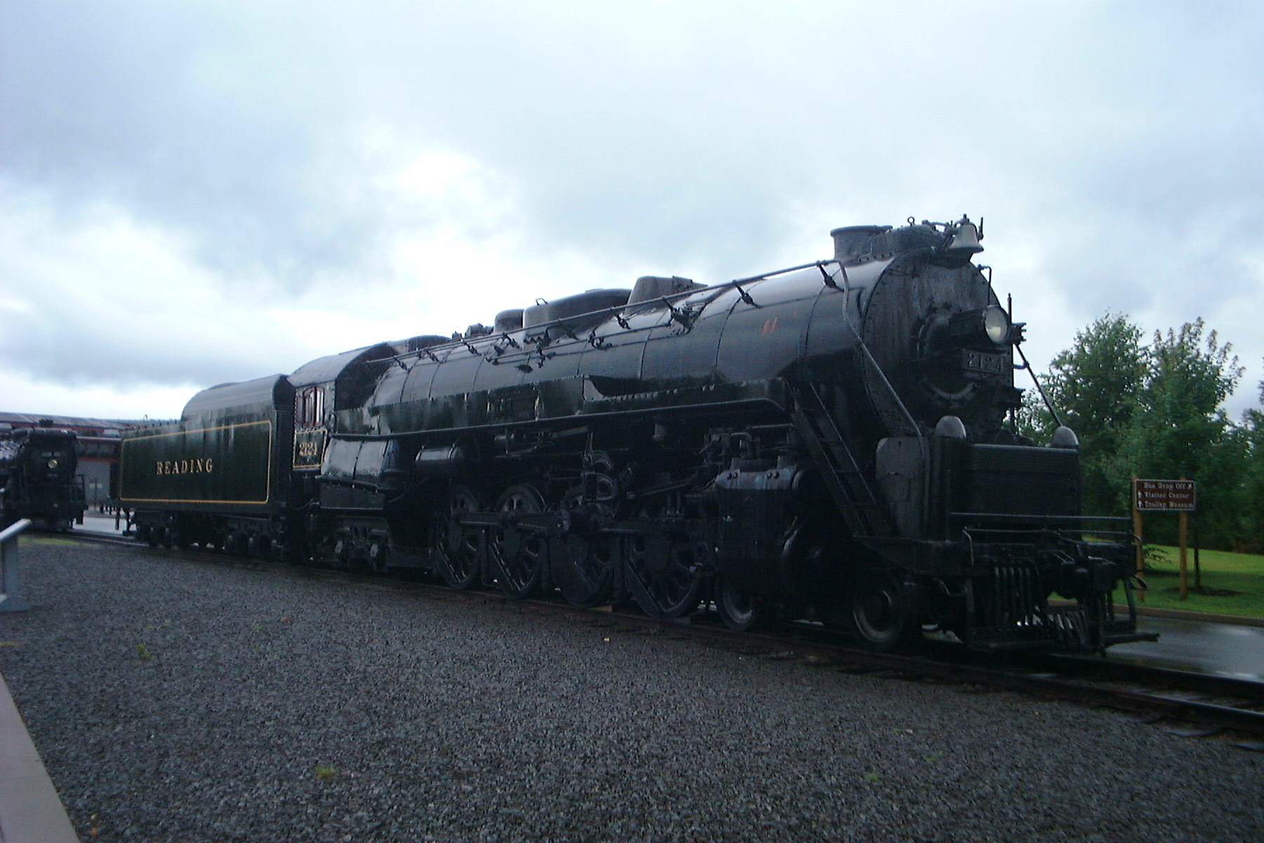 Steamtown,Scranton,PA